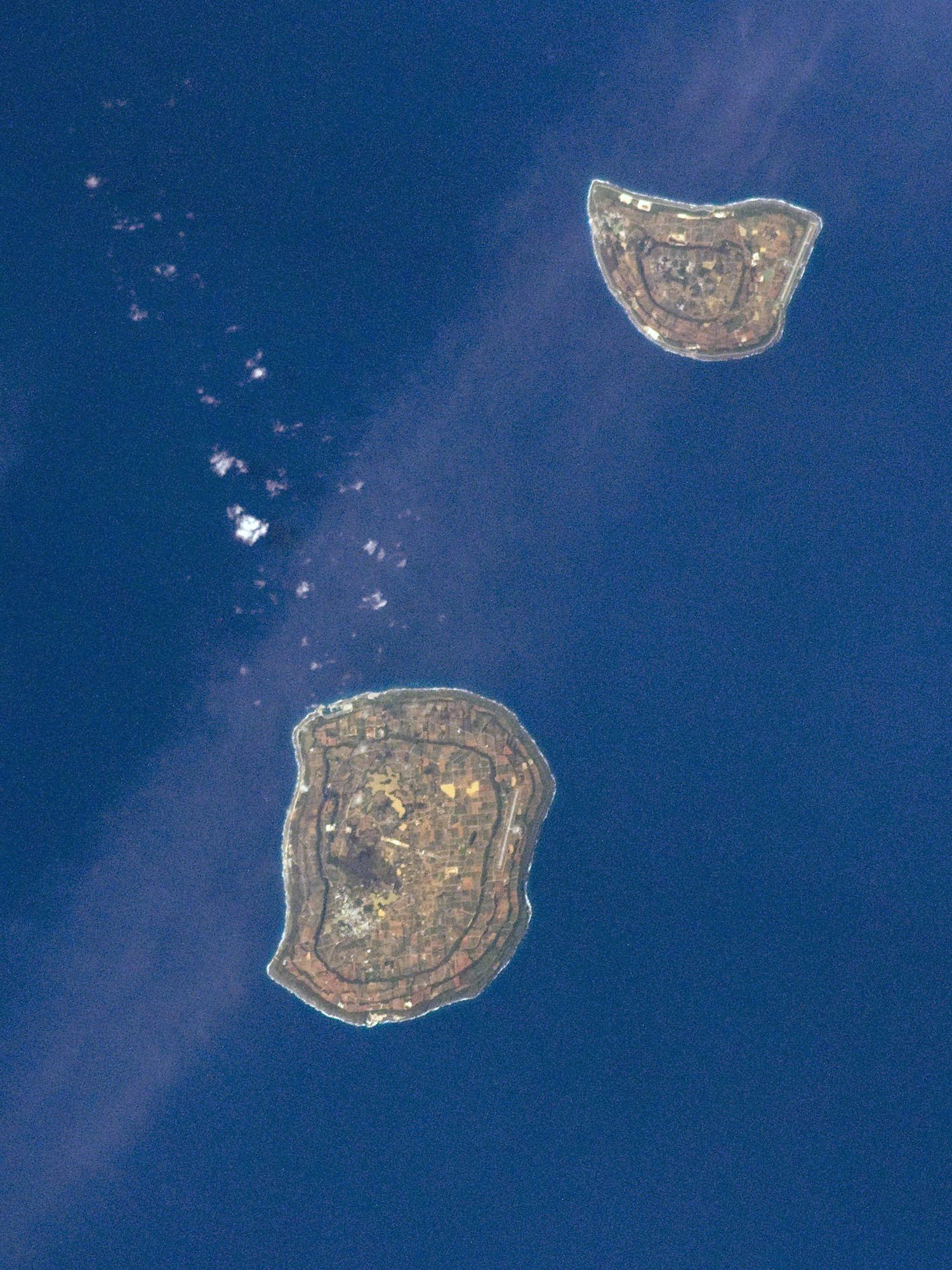 Kita-Daito Island (upper) and Minami-Daito Island (lower), Okinawa Prefecture, Japan.